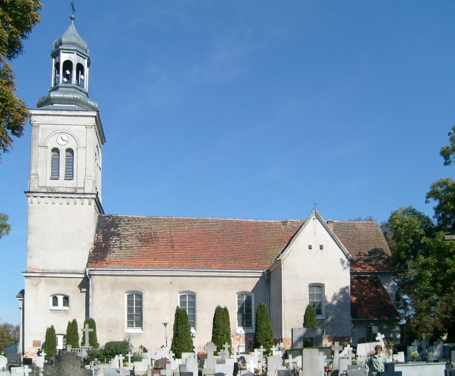 The church in Wtelno, Poland.